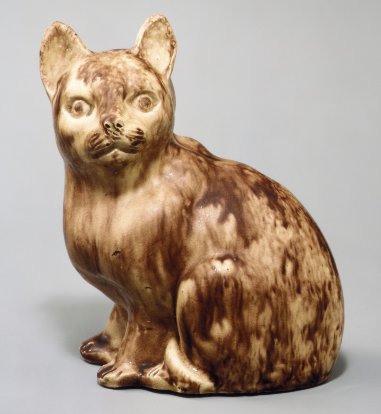 British, Staffordshire; Figure; Ceramics-Pottery